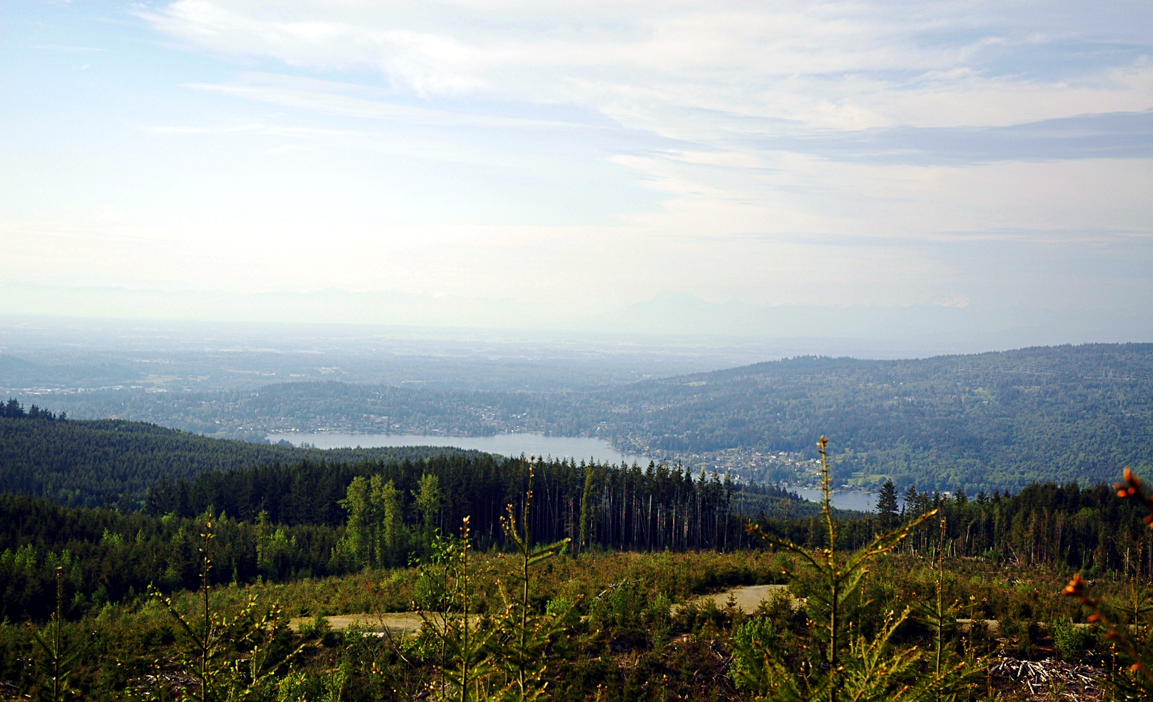 View from Galbraith Mountain, near Bellingham, Washington, United States